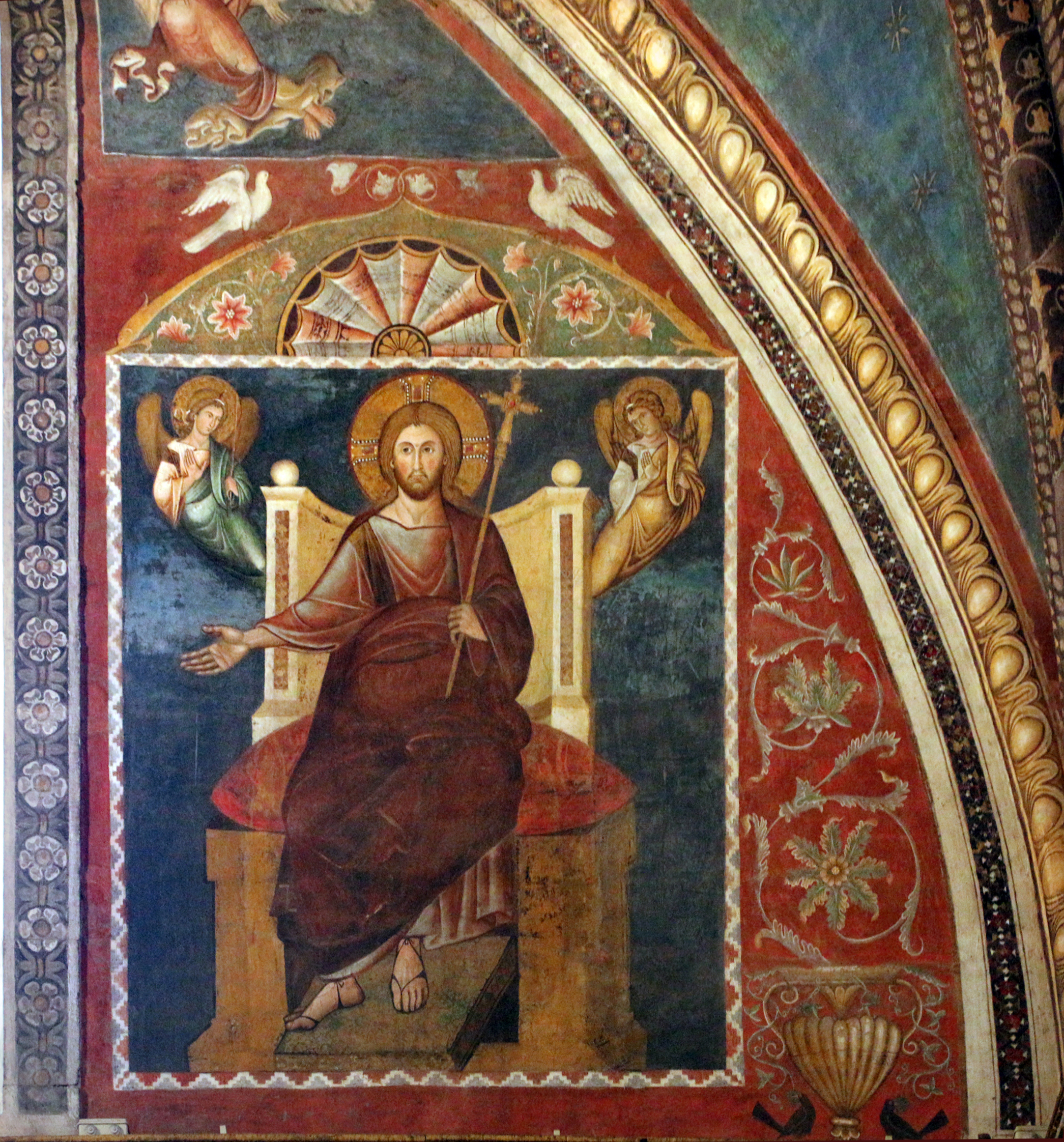 Sancta Sanctorum (Rome) - 13th-century frescos